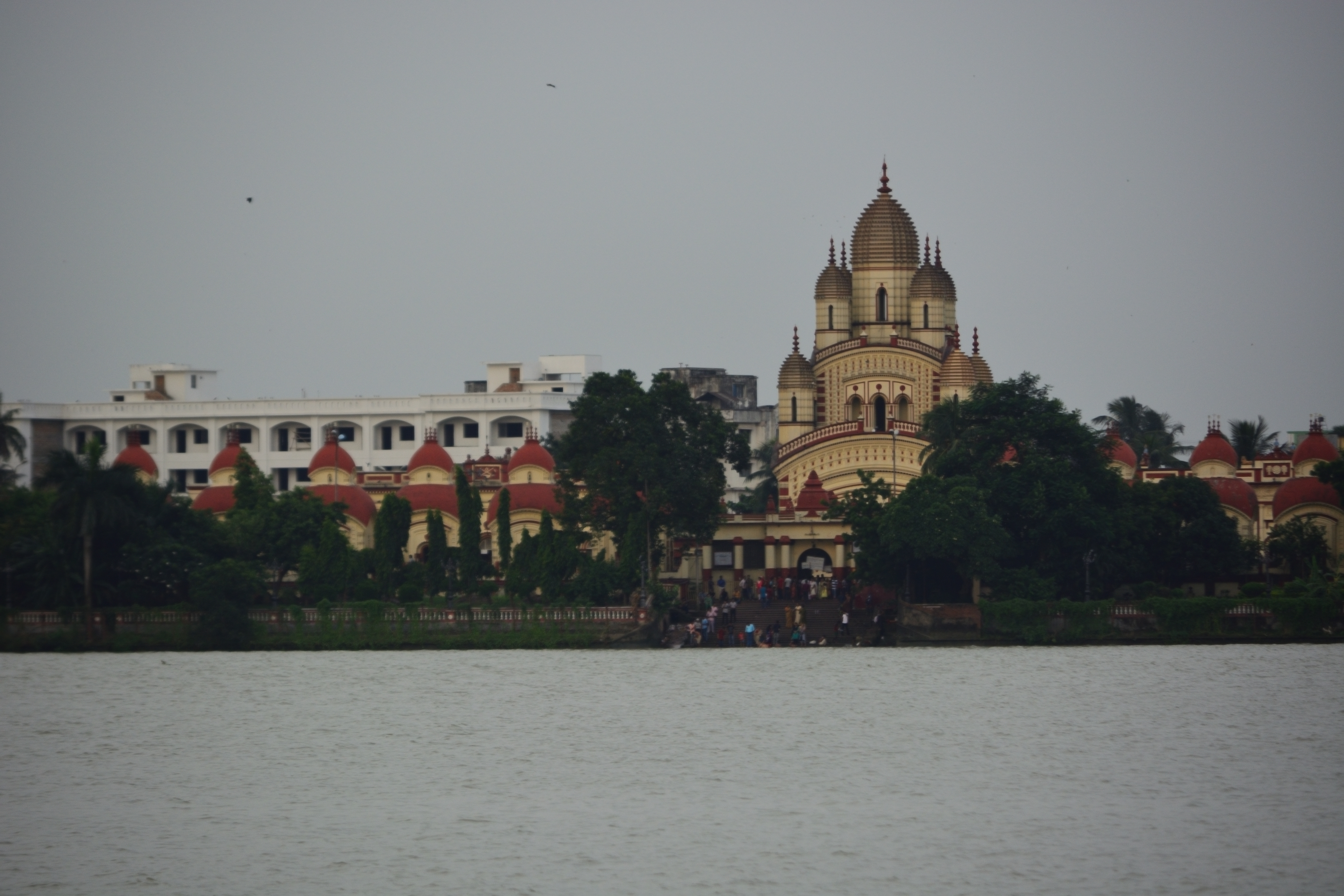 Dakshineswar Kali Temple from the opposite side of Hooghly river in Bally Ghat.